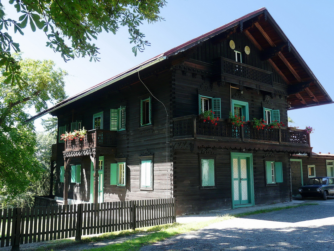 Lodge on Radechov